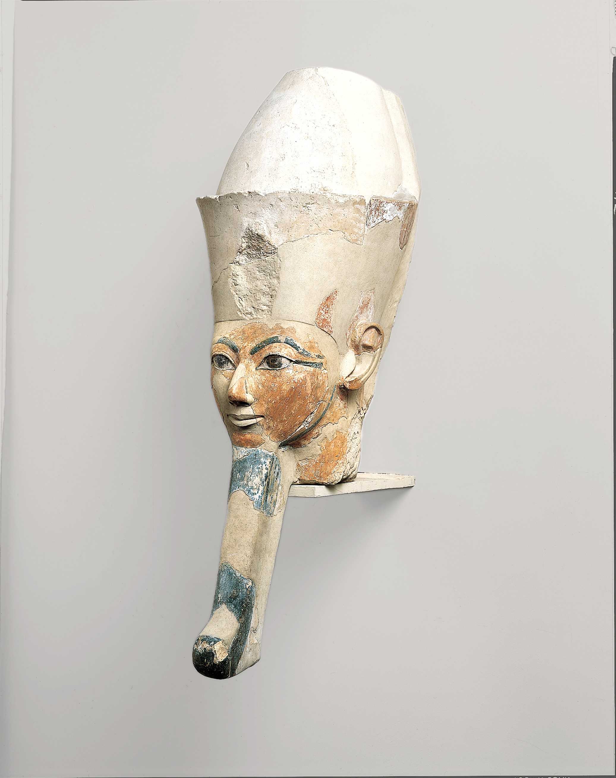 Head, Hatshepsut, niche, Double Crown